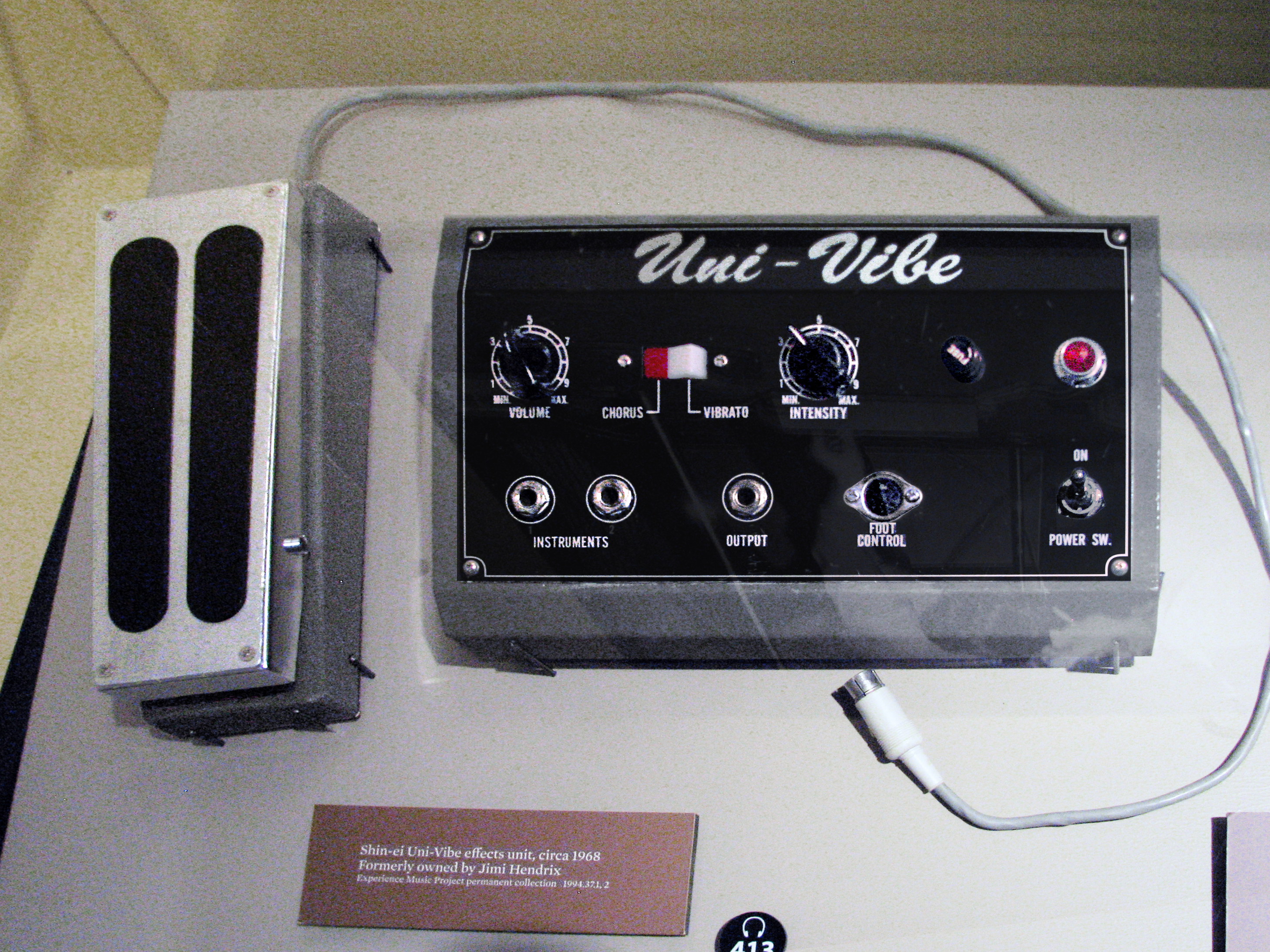 Shin-ei Uni-Vibe (1968), Jimi Hendrix, EMP Museum Shin-ei Uni-Vibe effects unit, circa 1968 Formerly owned by Jimi Hendrix Experience Music Project permanent collection 1994.37.1, 2